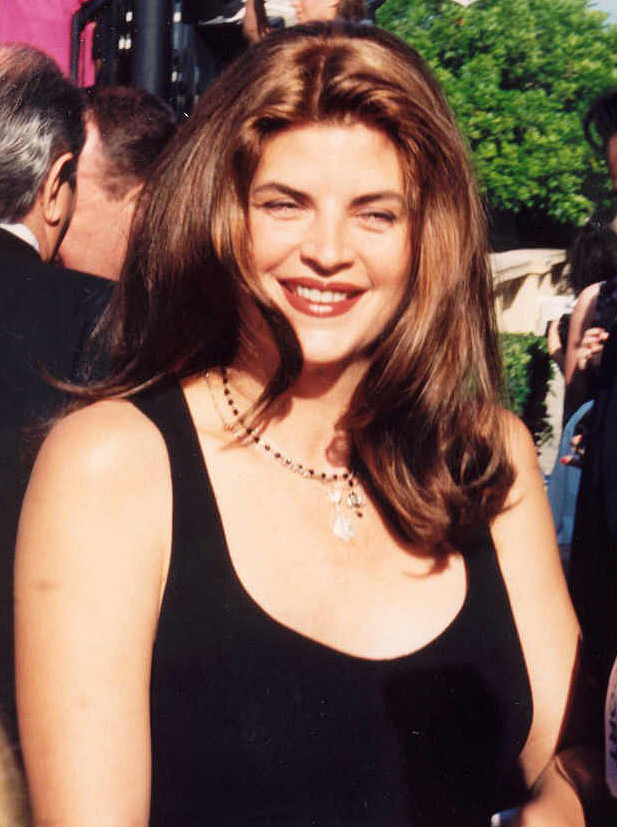 Kirstie Alley on the red carpet at the Emmys